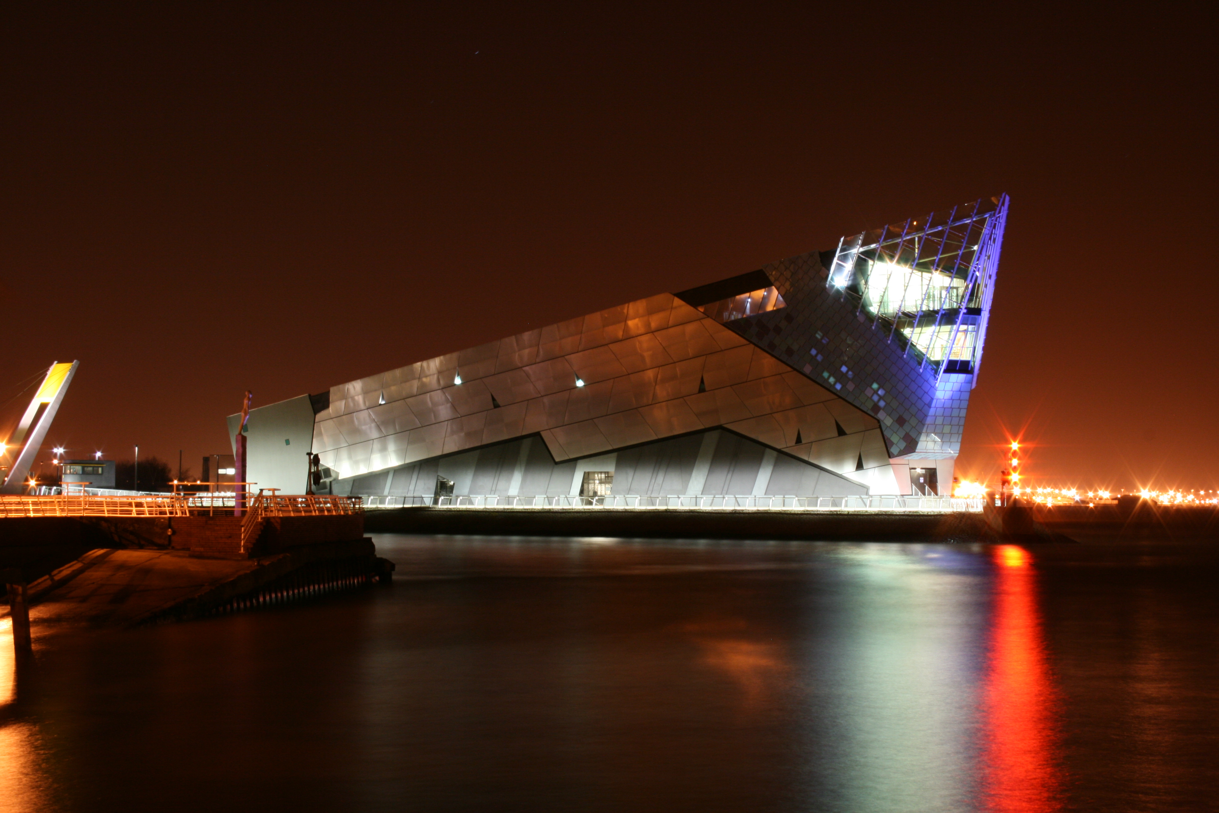 The Deep, Hull, East Riding of Yorkshire, England.